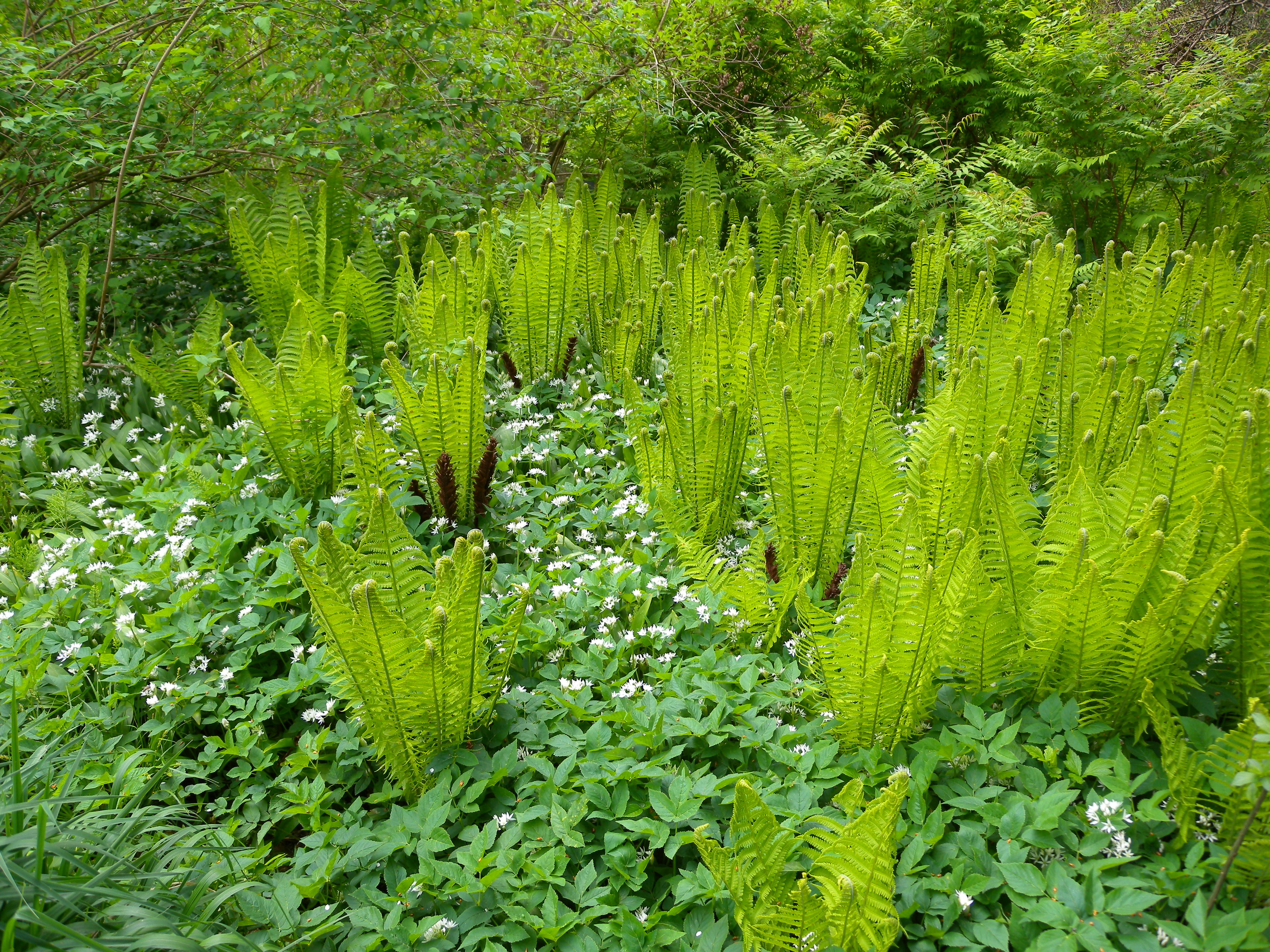 Matteuccia struthiopteris (Onocleaceae), Botanical Garden Bern, Switzerland